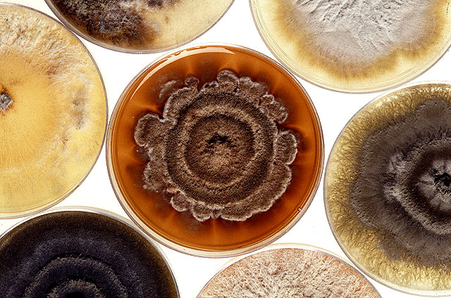 Cultures of a destructive mold called Phomopsis strains that infect both crop and noncrop plants.